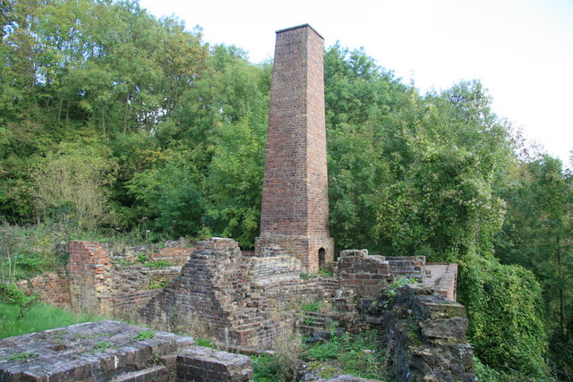 Boiler settings, Hay Inclined Plane This is a much under-rated and incredibly rare sight. The settings for a pair of haystack boilers that provided power to an Heslop engine to work the inclined plane.